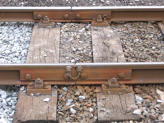 spaced sleeper joint